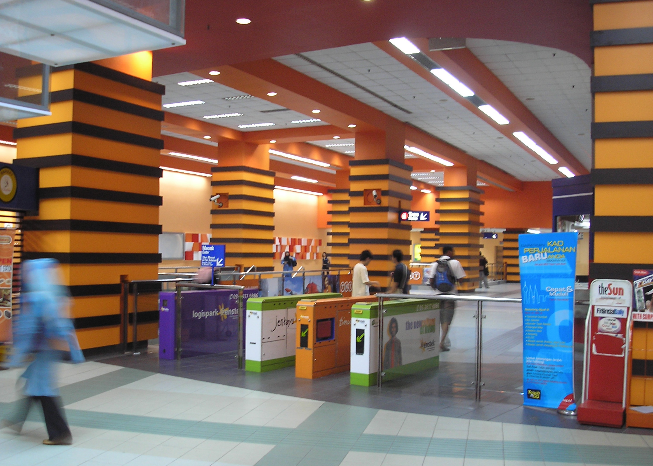 The refurbished concourse level of the Ampang Park LRT station (Kelana Jaya Line), Kuala Lumpur, Malaysia.